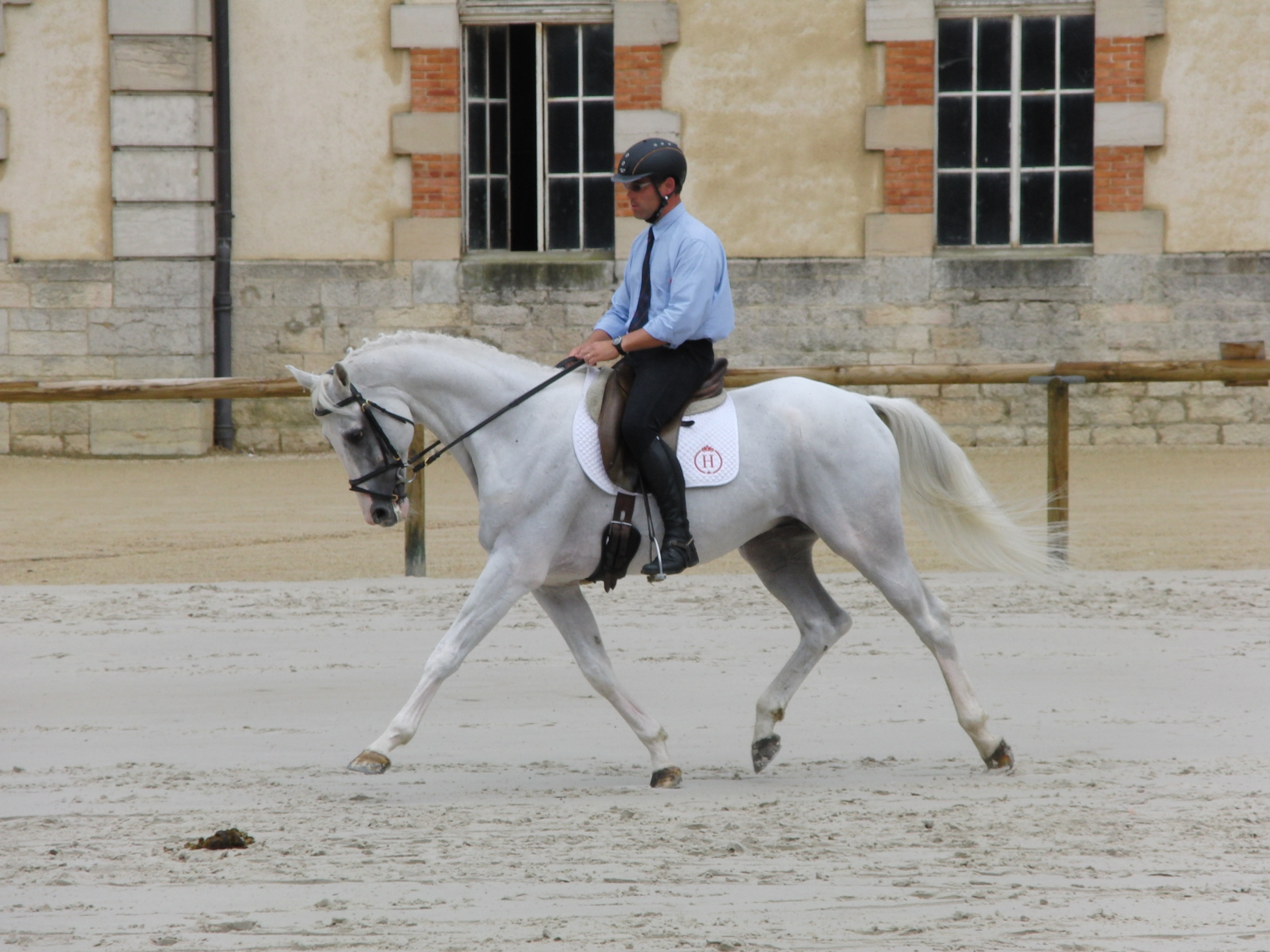 Anglo-Arabian stallion - Haras de Cluny, Saône-et-Loire, France